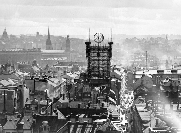 Telephone tower at Brunkebergstorg, Stockholm. The tower is long gone but the clock is still rotating high above NK at Hamngatan.